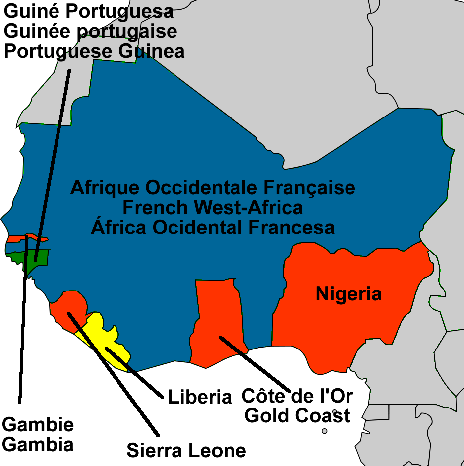 Map of colonial West Africa